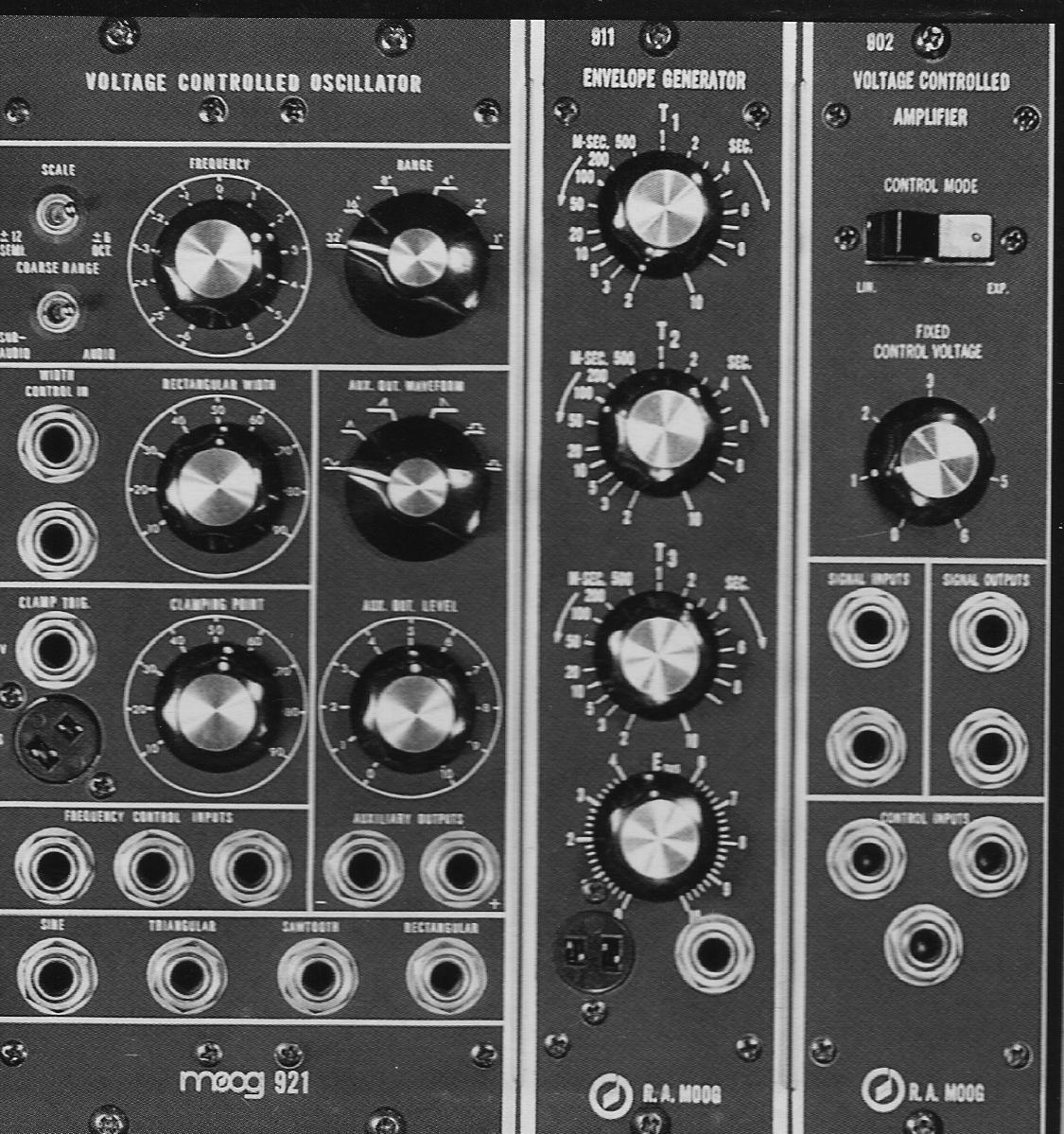 Moog 921 coupled to 911 and 902... Moog 921 Voltage Controlled Oscillator R.A.Moog 911 Envelope Generator R.A.Moog 902 Voltage Controlled Amplifier